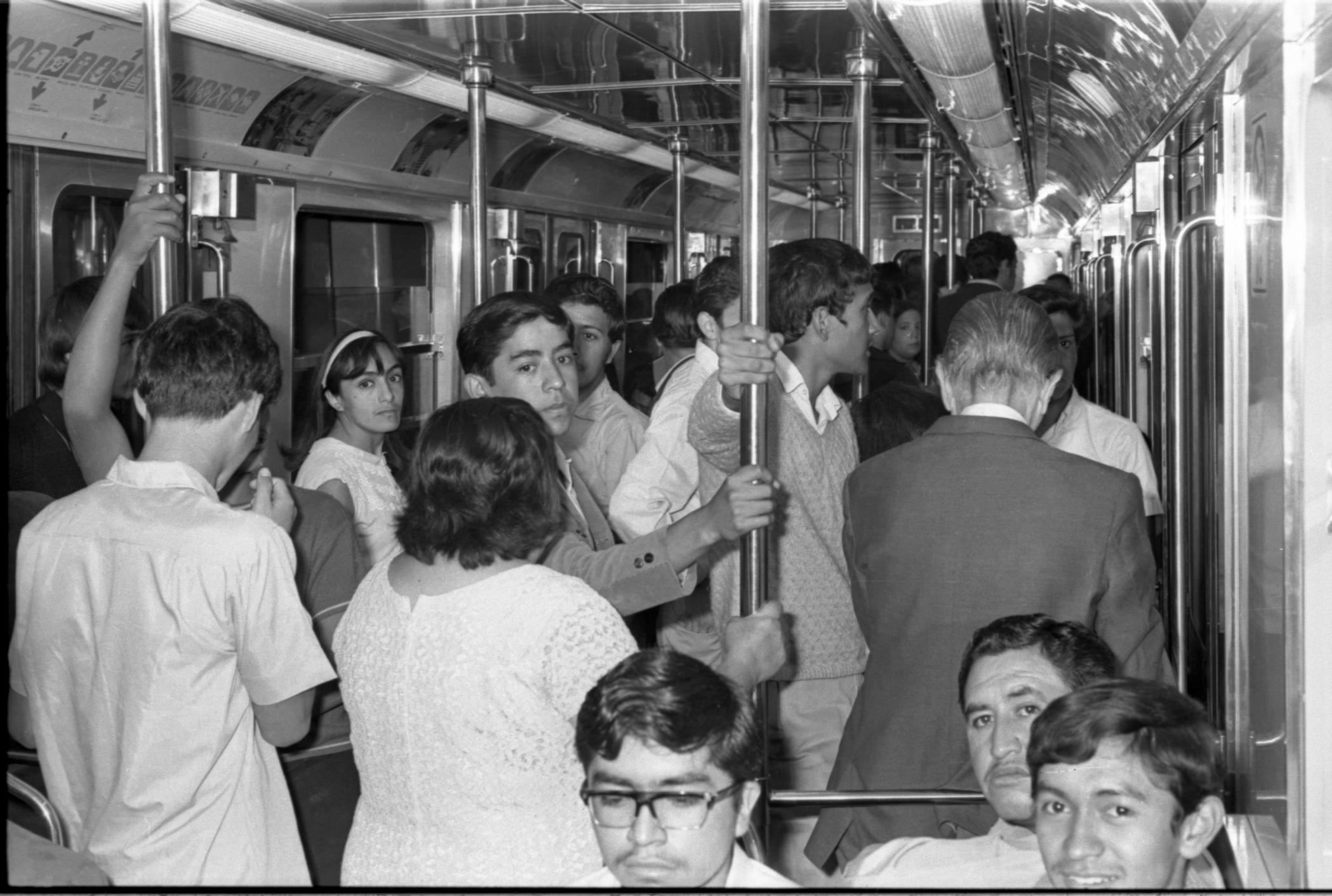 Passengers at Chapultepec station after opening of Mexico City Subway, Mexico City, Mexico.